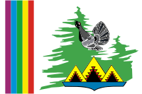 Raduzhny (Khanty-Mansia (Yugra)), flag